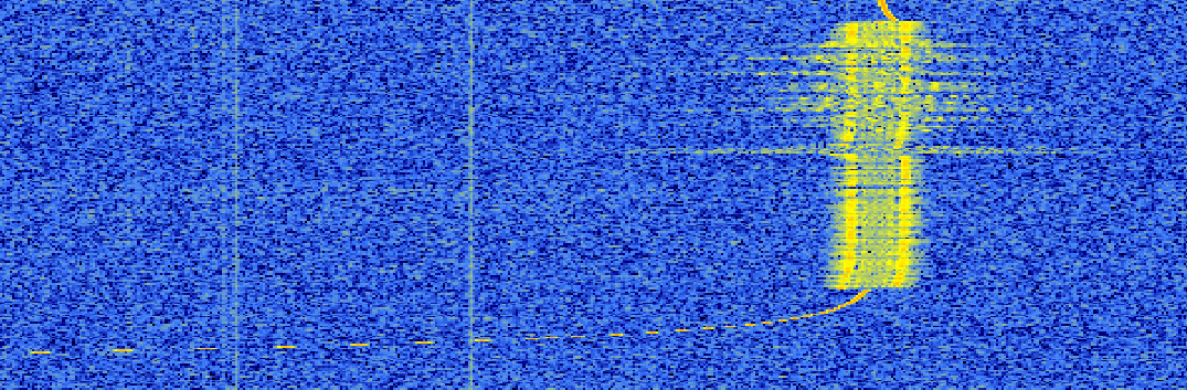 Transponder mode beacon is transmitted every 2 minutes when the satellite is in transponder mode and no uplinks are being attempted.